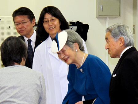 Emperor Akihito and Empress Michiko inspected the National Rehabilitation Center for Persons with Disabilities with Akira Nagatsuma, Minister of Health, Labour and Welfare, and Yoshiko Tobimatsu, President of the National Rehabilitation Center for Persons with Disabilities, in Tokorozawa City, Saitama Prefecture on December 7, 2009.